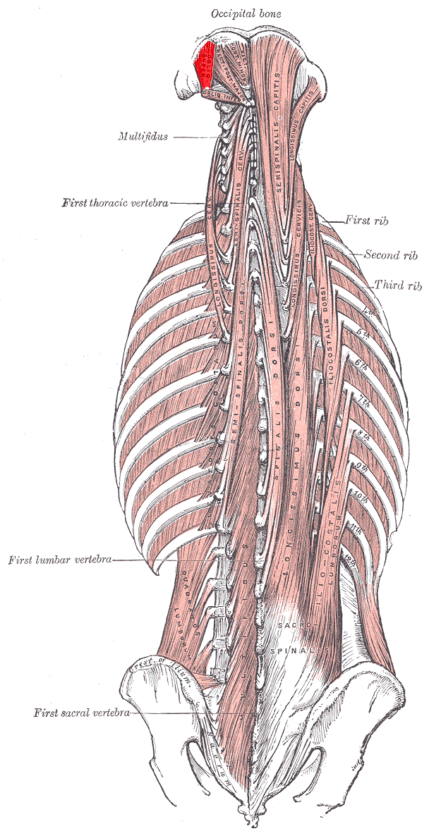 The Obliquus capitis superior muscle arises from the lateral mass of the atlas bone. This sketch is from Gray's Anatomy.